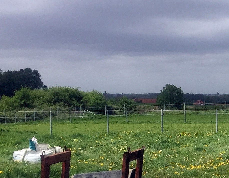 Hill 60, Ypres, Belgium: the access to the 'Berlin Tunnel' mine gallery was located left of the tree in the centre of this photo.